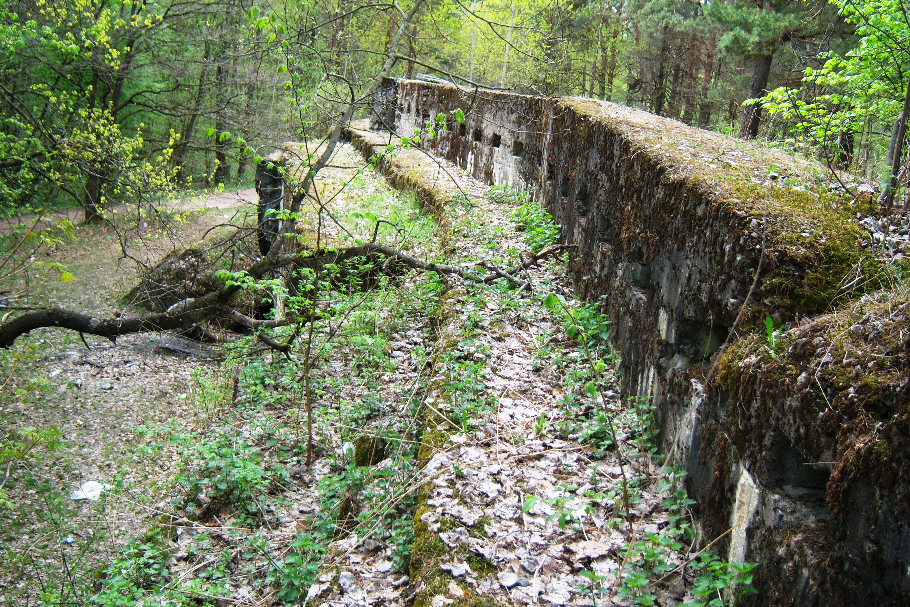 Kaunas Fortress. Romainiai Fort (or X Fort), Lithuania. Shelf with Ammunition Niches Kategorija: Kauno tvirtovė